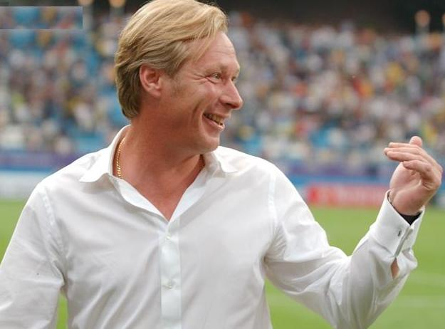 Oleksiy Mykhaylychenko